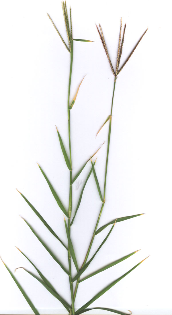 Cynodon dactylon, Bermuda Grass. Image from flat-bed scanner. Specimen found at Phoenix, Arizona, USA.